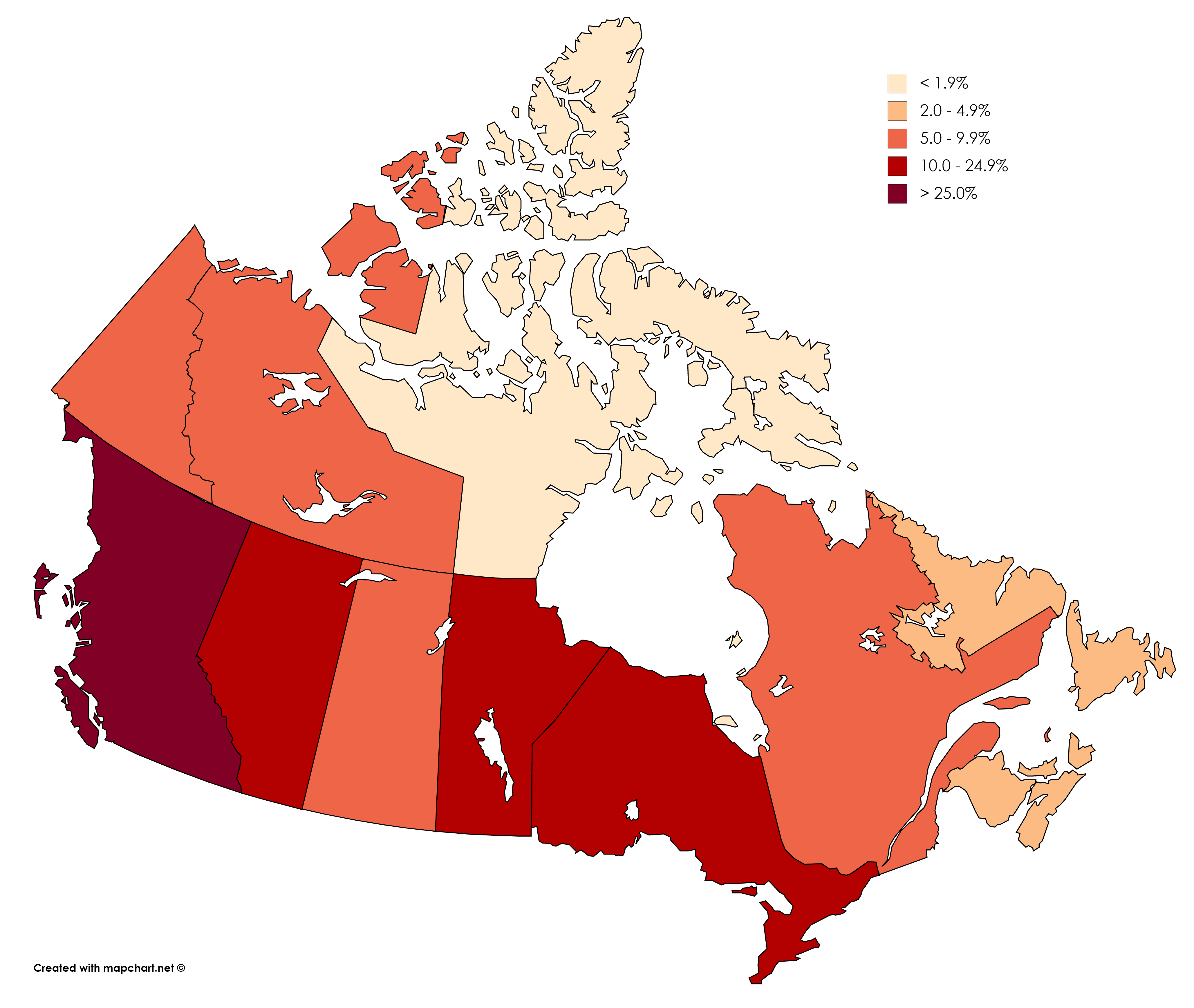 Population distribution of Asian Canadians by % of total population by province/territory, 2016 census